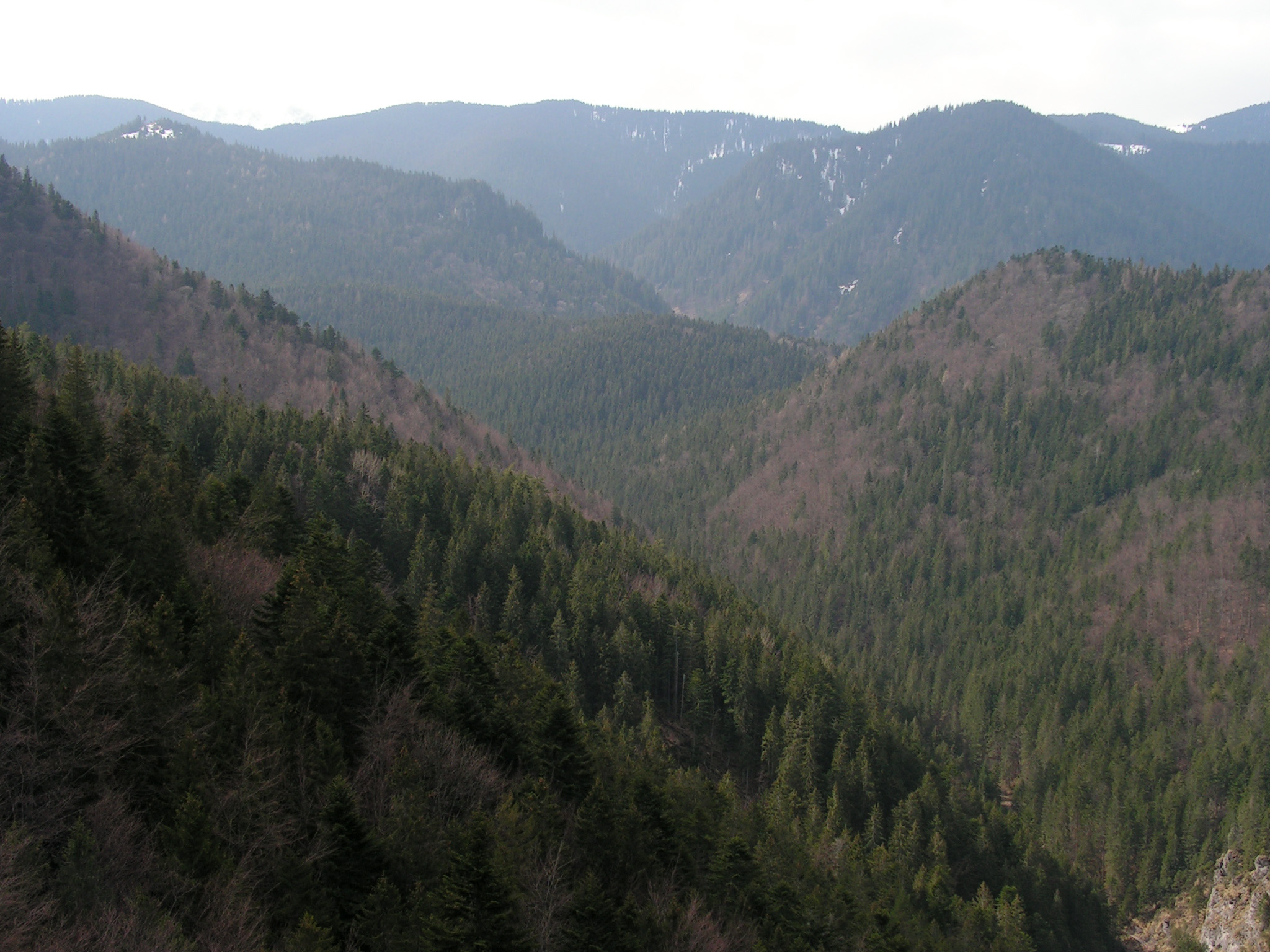 Juráňova dolina